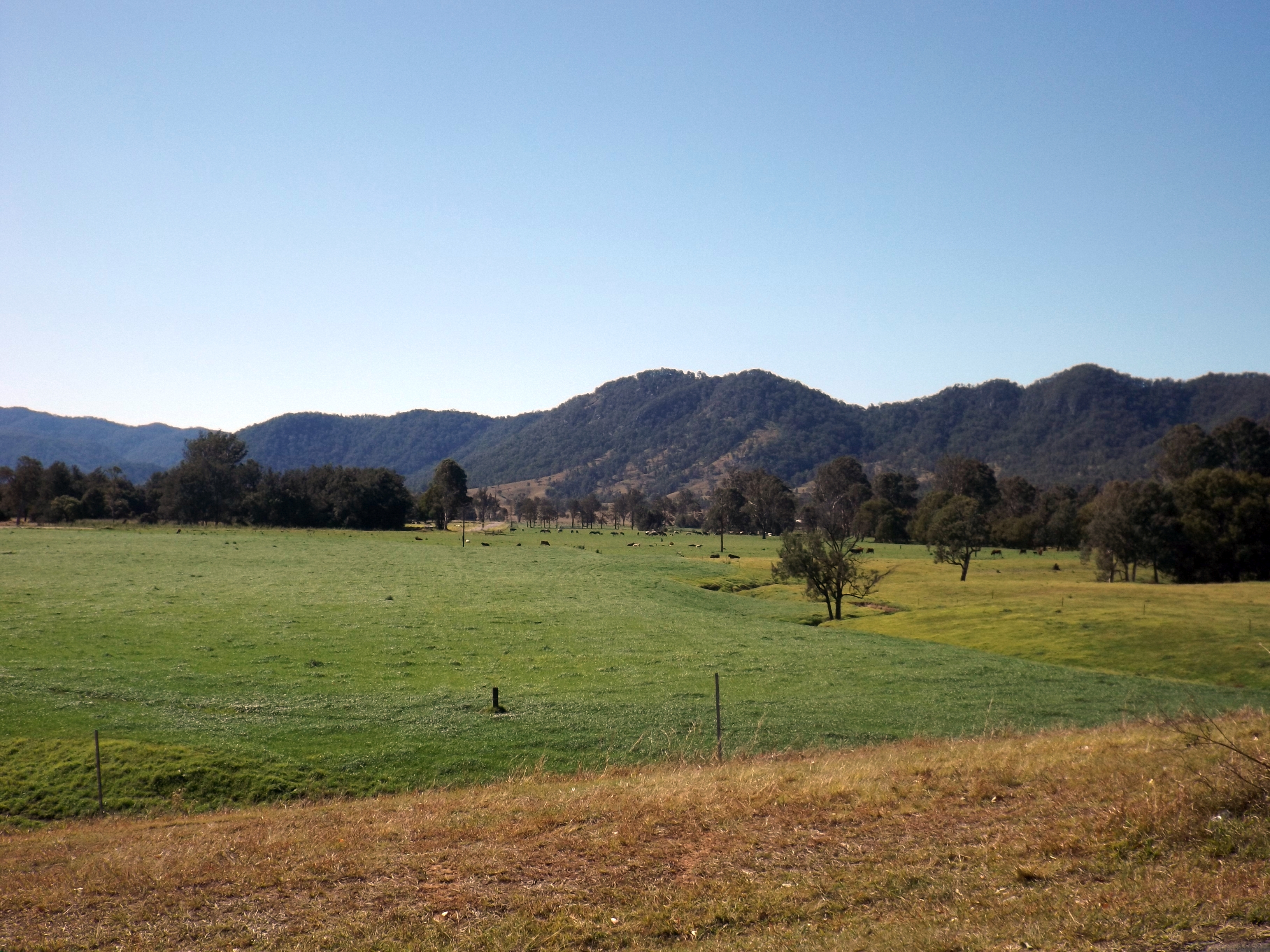 Photo of paddocks along Jenkinsons Road at Mount Kilcoy, Somerset Region, Queensland, Australia.